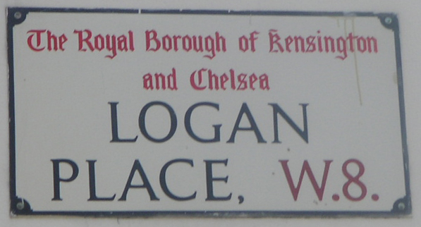 Street-sign where Freddie Mercury used to live